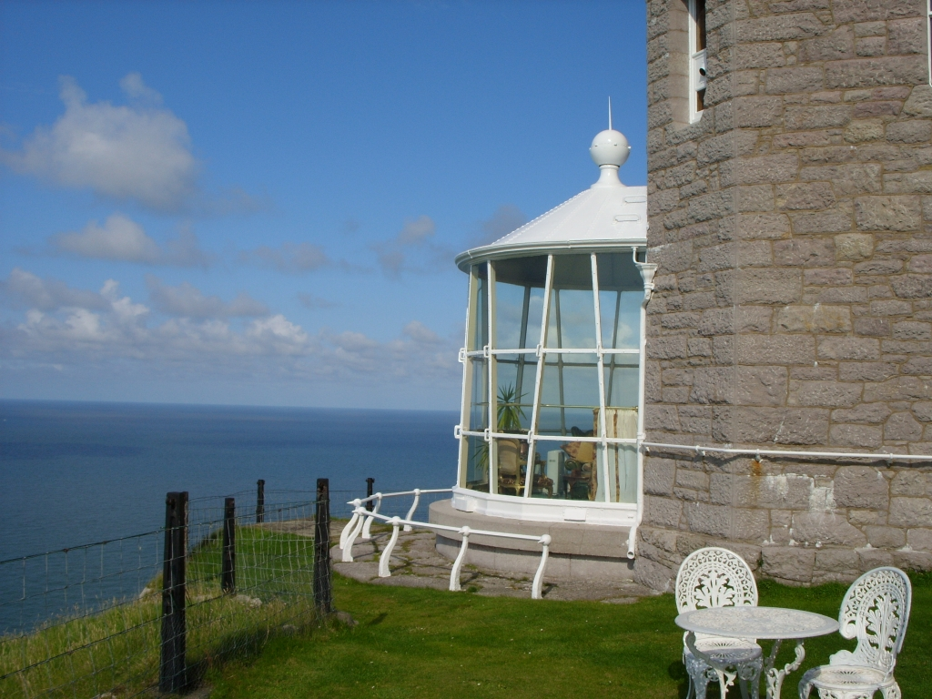 View from the lamp suite of the Llandudno lightouse bed & breakfast establishment. This room used to be where the optic of the lighthouse was set. Now it's on permanent display in the Summit Complex at the peak of the Great Orme.